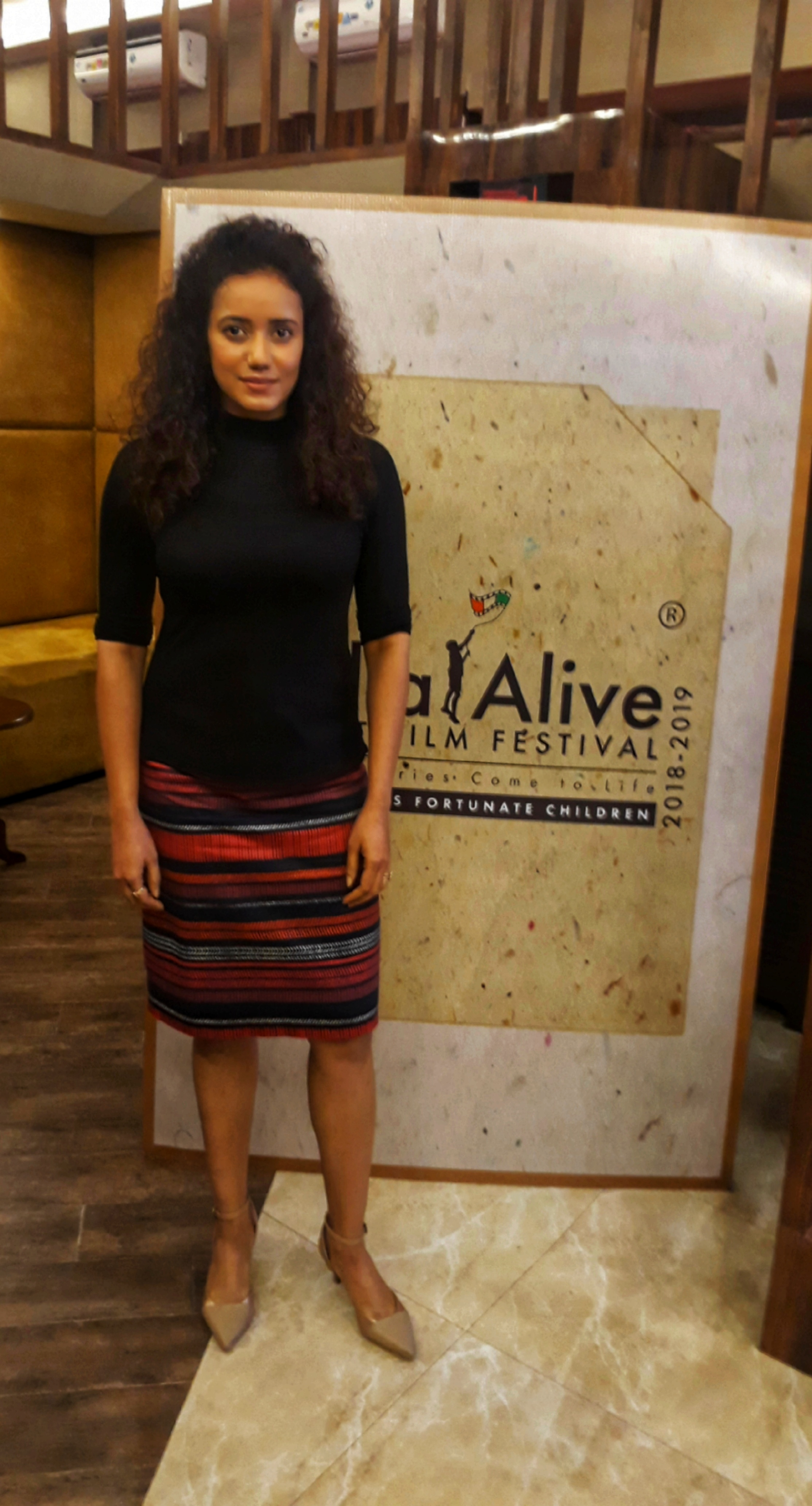 Photo of Shreya Narayan at a short film festival.